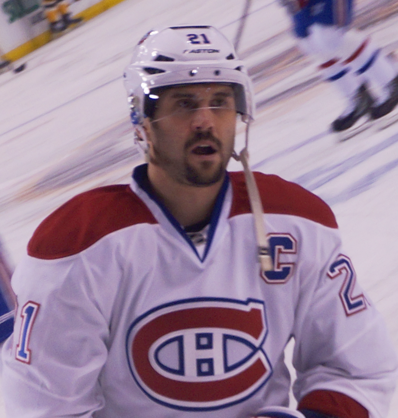 I took this picture of Brian during pre-game warm-ups prior to the Eastern Conference Semi-Finals in Boston, MA.